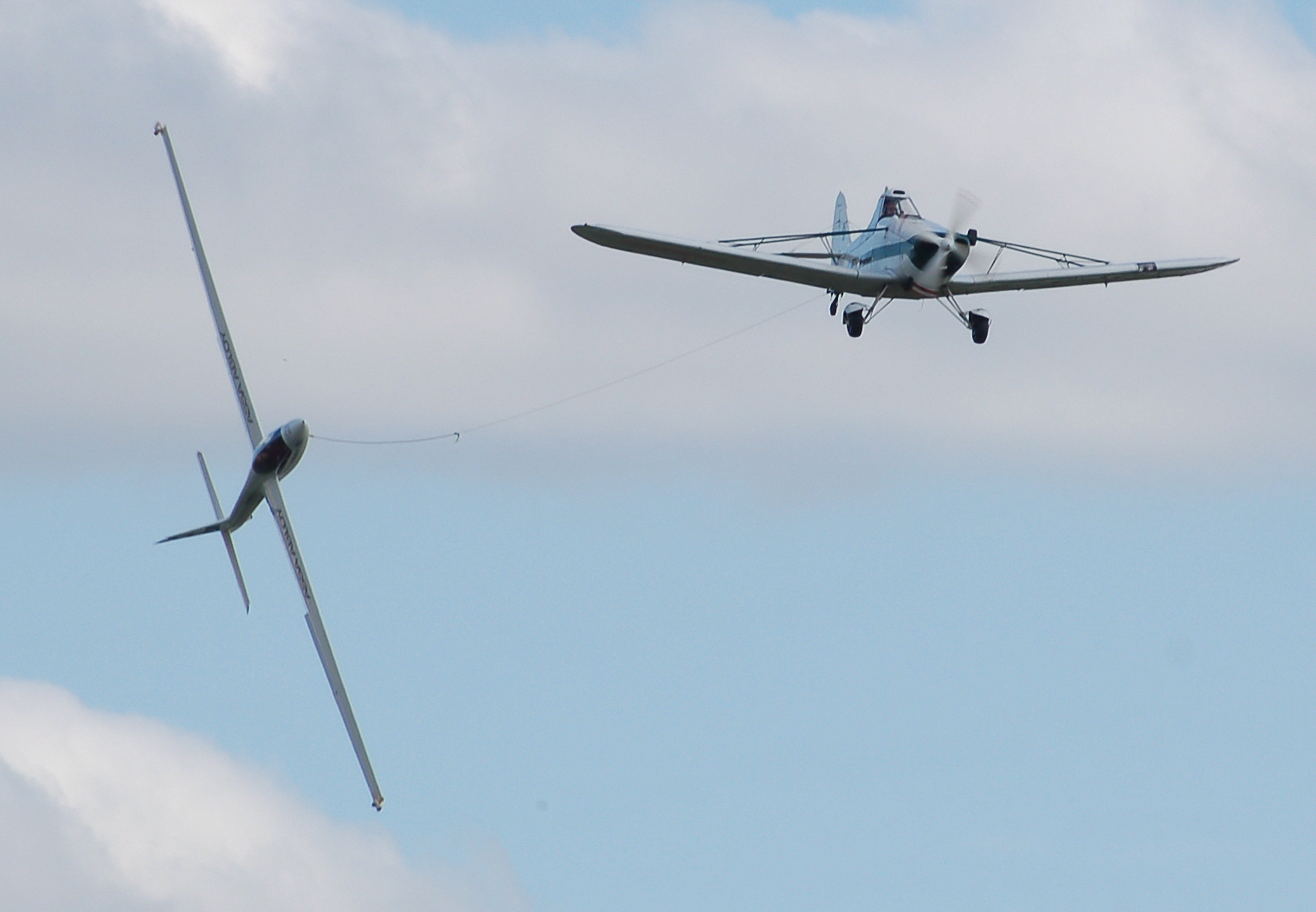 Swift S-1 glider (G-IZII, built 1993) performs continuous full rolls during the Swift Aerobatic Team Display at Kemble Battle of Britain Weekend, Cotswold Airport, Gloucestershire, England. Piper PA-25-235 Pawnee (G-BDPJ, built 1965) is towing. The Swift Team display is the Swift glider doing aerobatics (such as rolls and flying upside down) while still on tow by the Pawnee, with a Silence SA180 Twister propeller aircraft (not seen here) performing aerobatics near the ensemble.